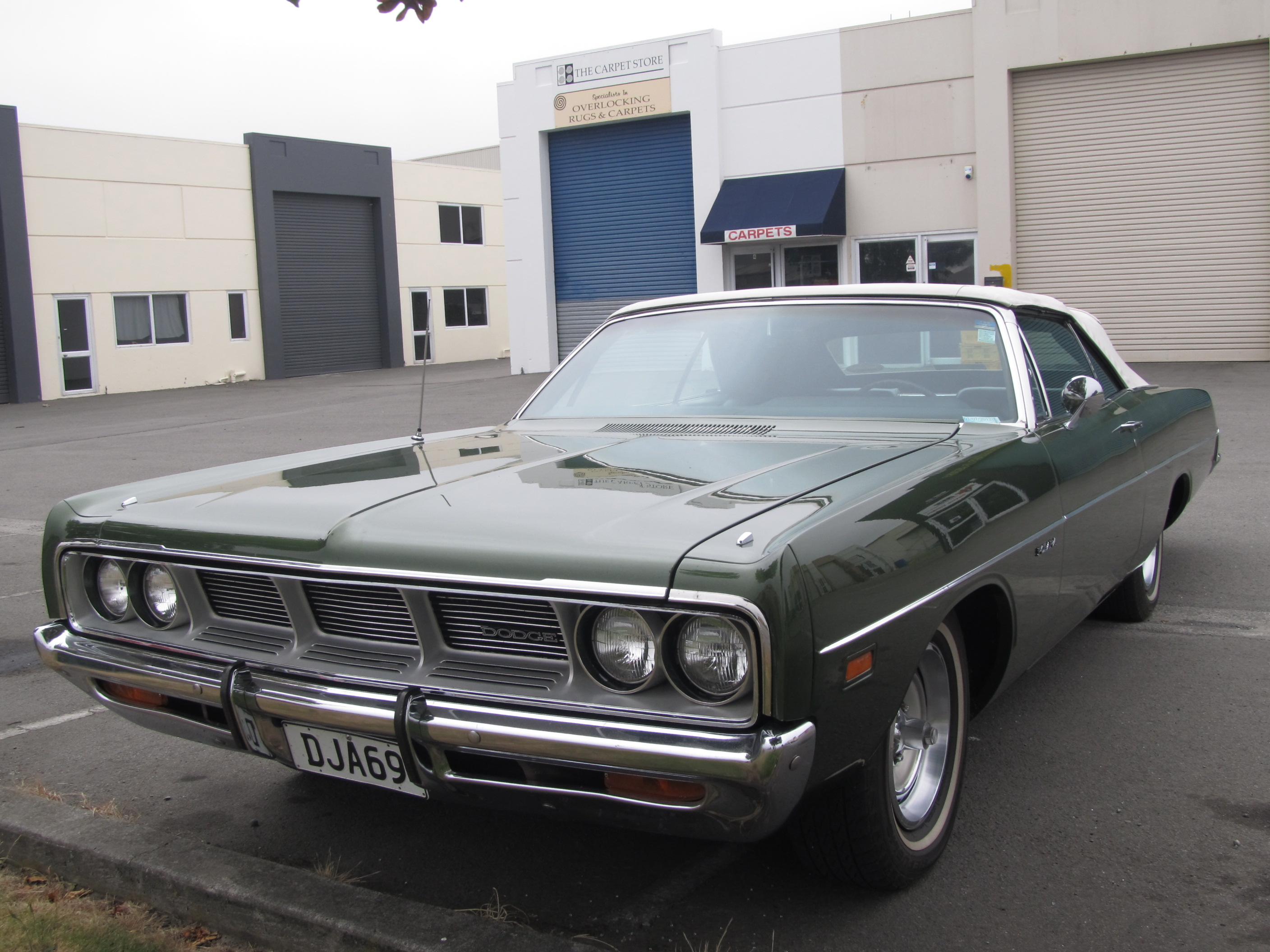 A rare and imposing tank with an appropriately large 6.3 litre V8 under that vast bonnet. Imported from the US in 2005, this car is from the first year of the final generation of Polara.